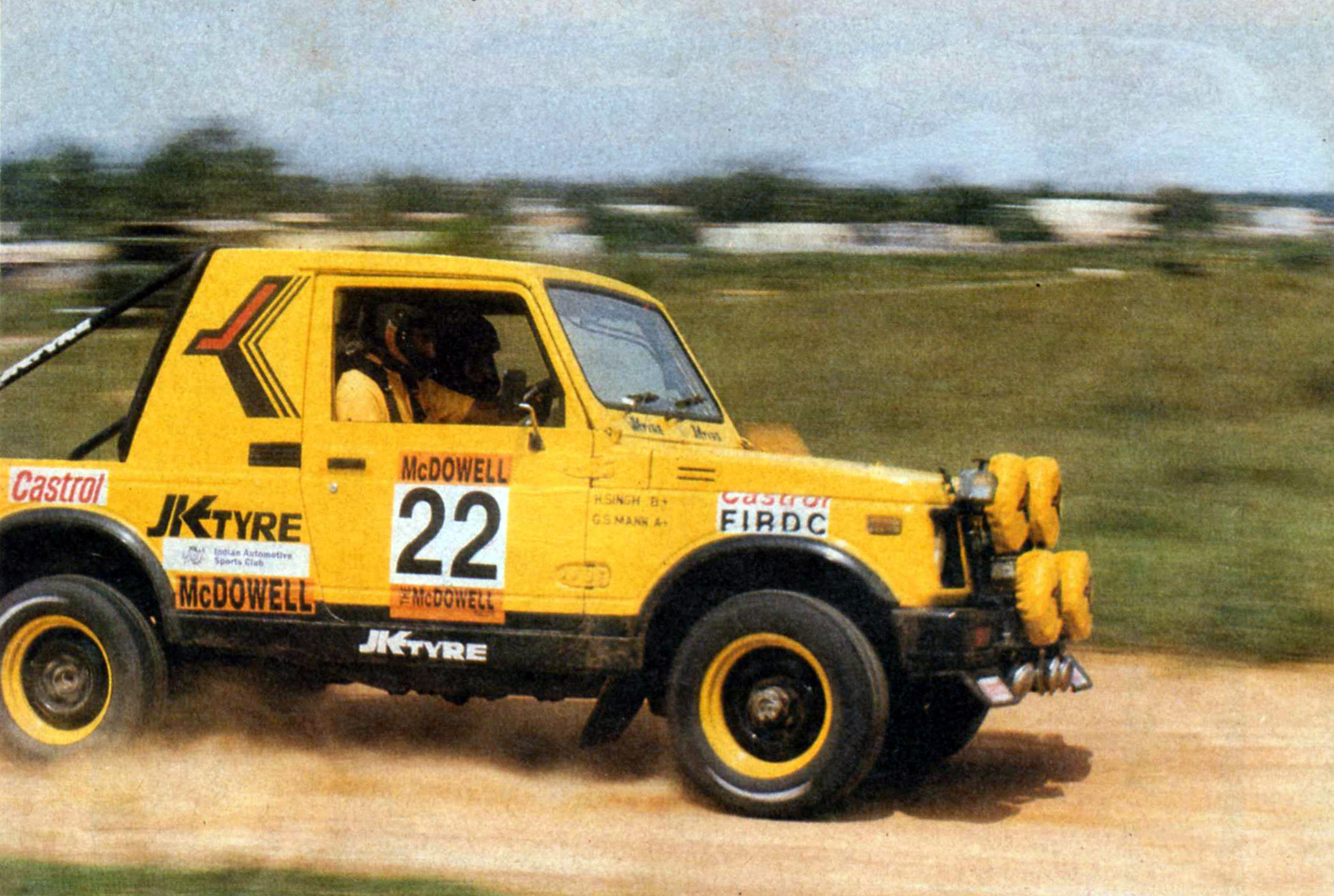 Hari Singh in a Team JK Tyres Maruti Gypsy in the 1992 Mcdowell Rally D'Endurance .